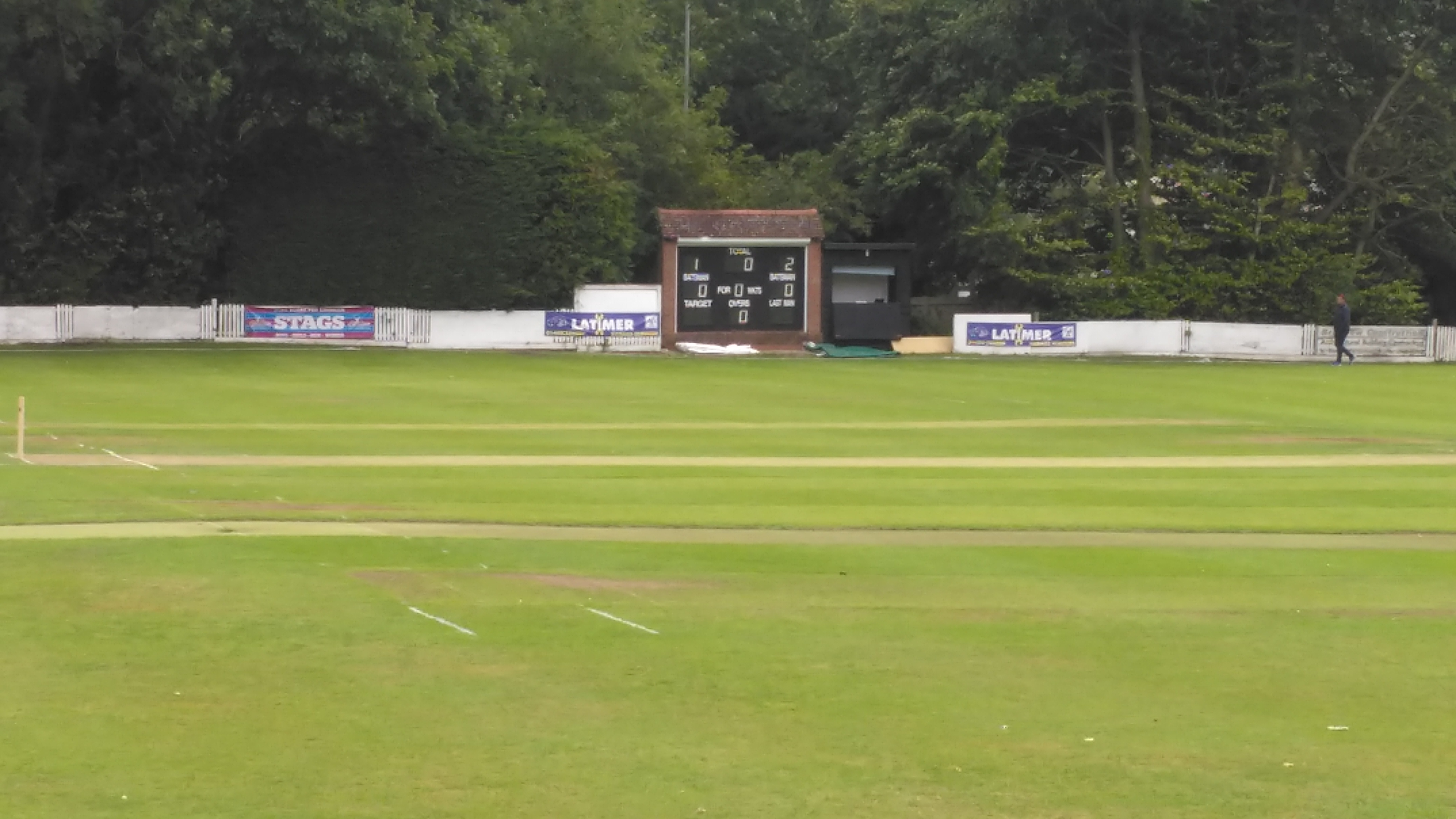 Photo taken by me at Day 1 of the Minor Counties Championship match between Buckinghamshire CCC and Cambridgeshire CCC on 30 July 2017 at Amy Lane, Chesham. The scoreboard.